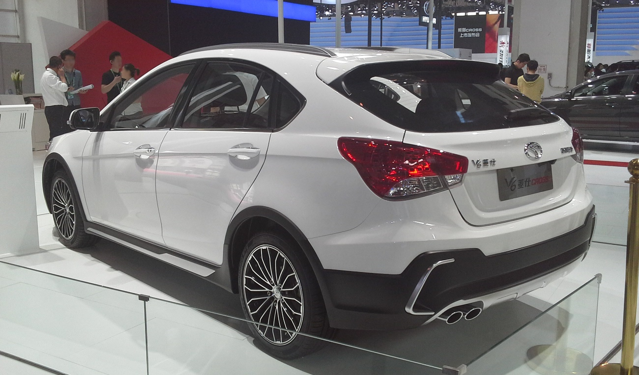 Soueast V6 Lingshi Cross photographed at the Auto China 2014, Beijing, China.